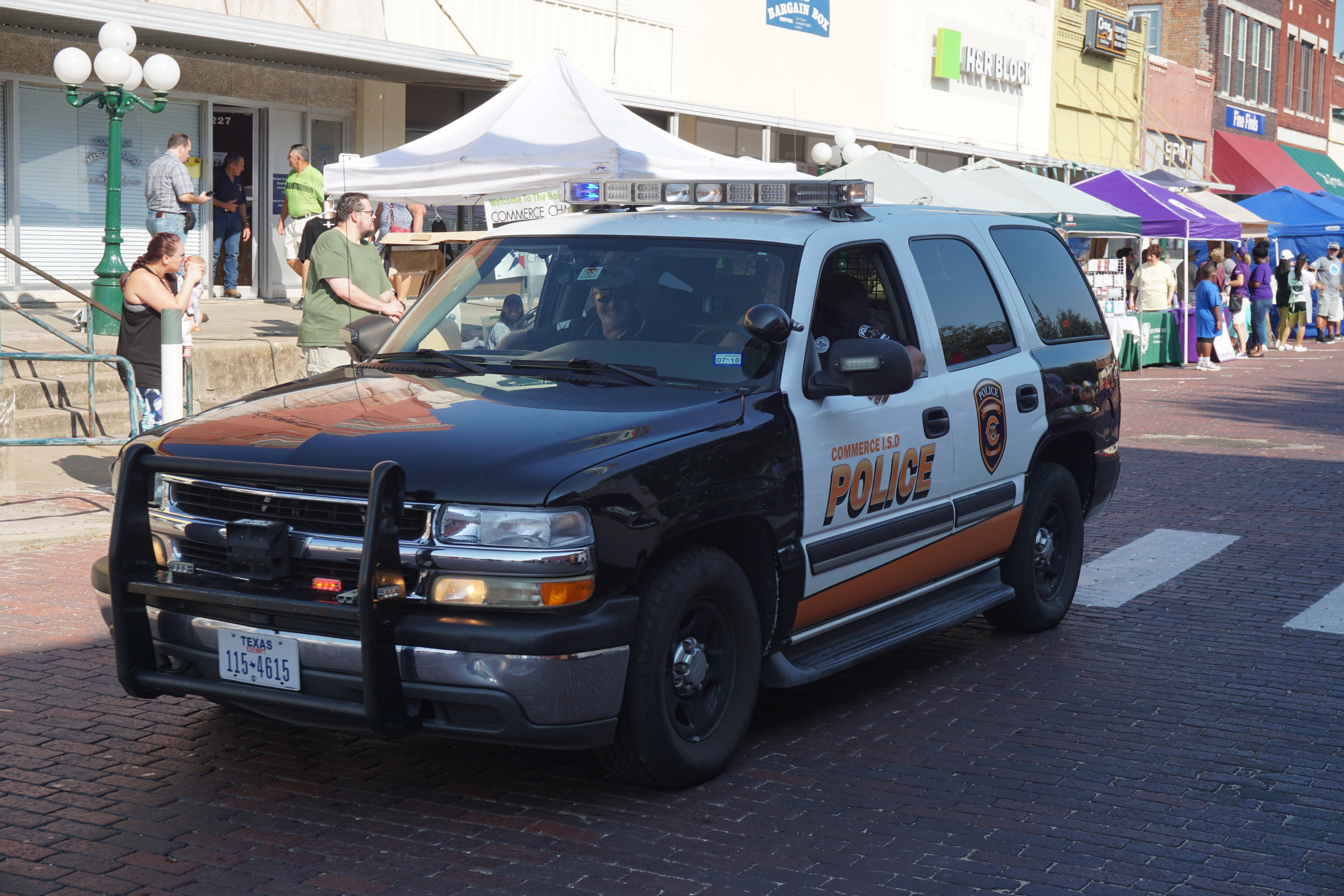 A Commerce I.S.D. Police Chevrolet Tahoe in the parade at the 32nd Annual Bois d'Arc Bash in Commerce, Texas (United States).